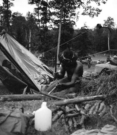 "Hippy" making a fire, camping on slopes of Powder Ridge ski area, during canceled Rock Festival.